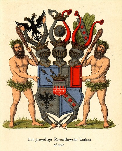 Coat of arms of the comital Reventlow family line of 1673